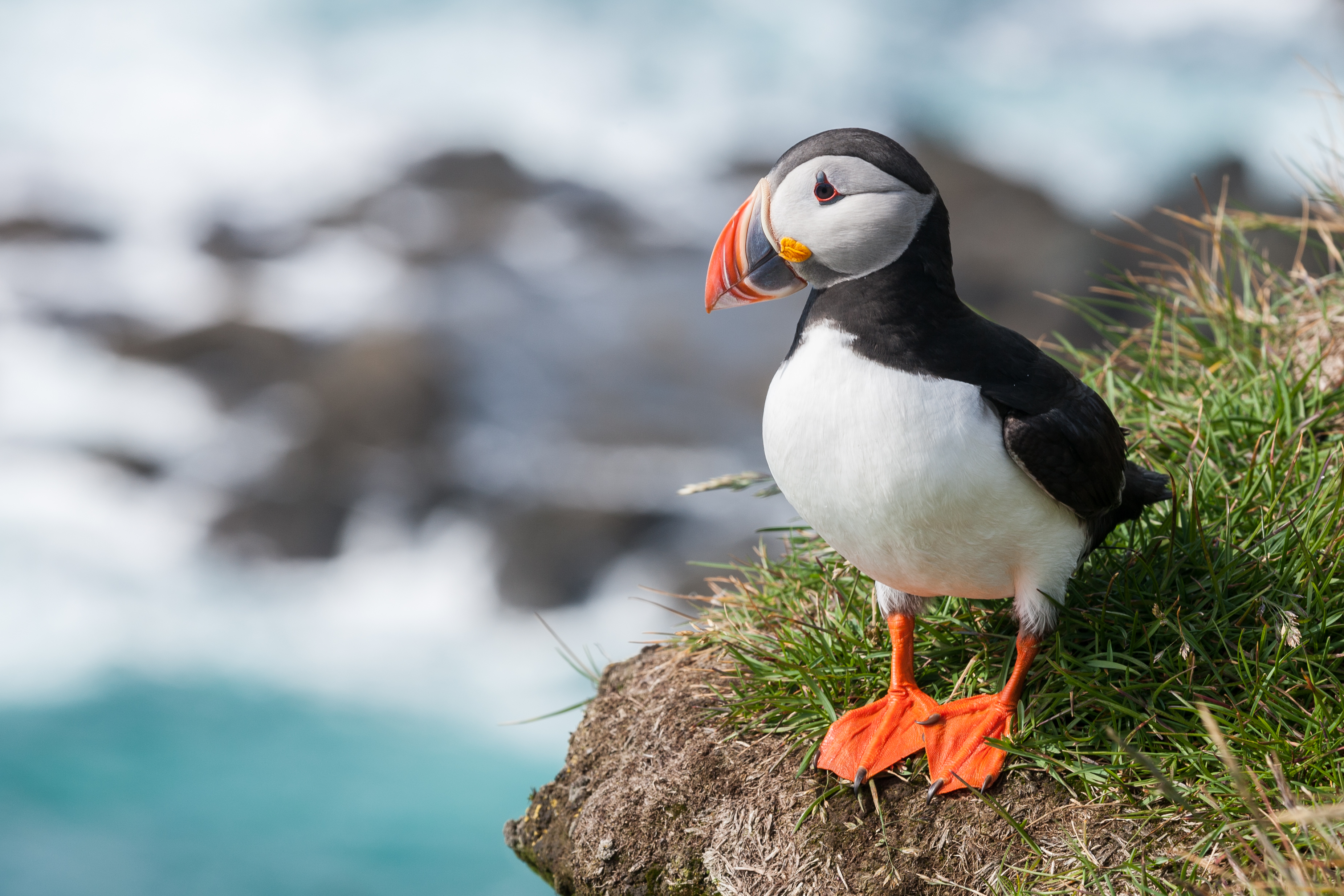 Puffin (Fratercula arctica) at Látrabjarg, Iceland.